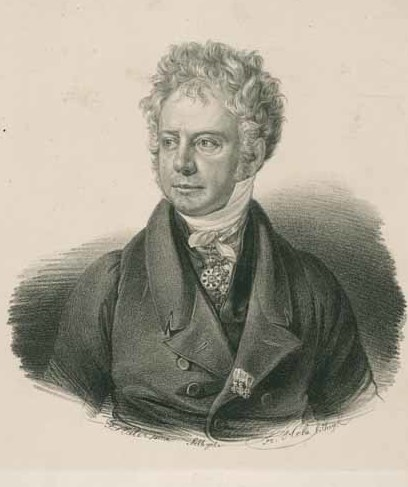 German scientific instrument maker Georg Friedrich von Reichenbach (21 July 1771 – 21 May 1826).